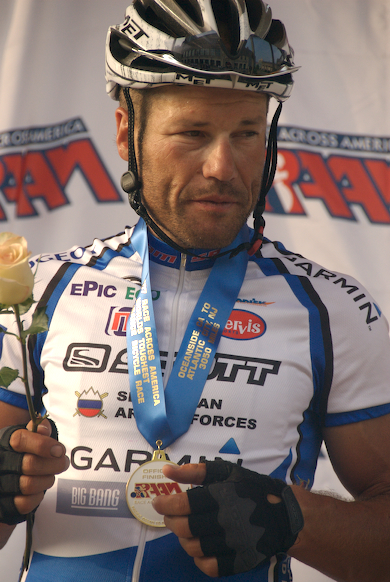 Jure Robič at the 2007 RAAM Champion.